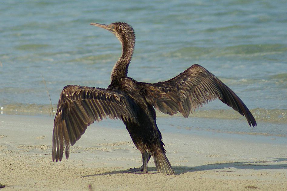 Socotra Cormorant near Abu Dhabi